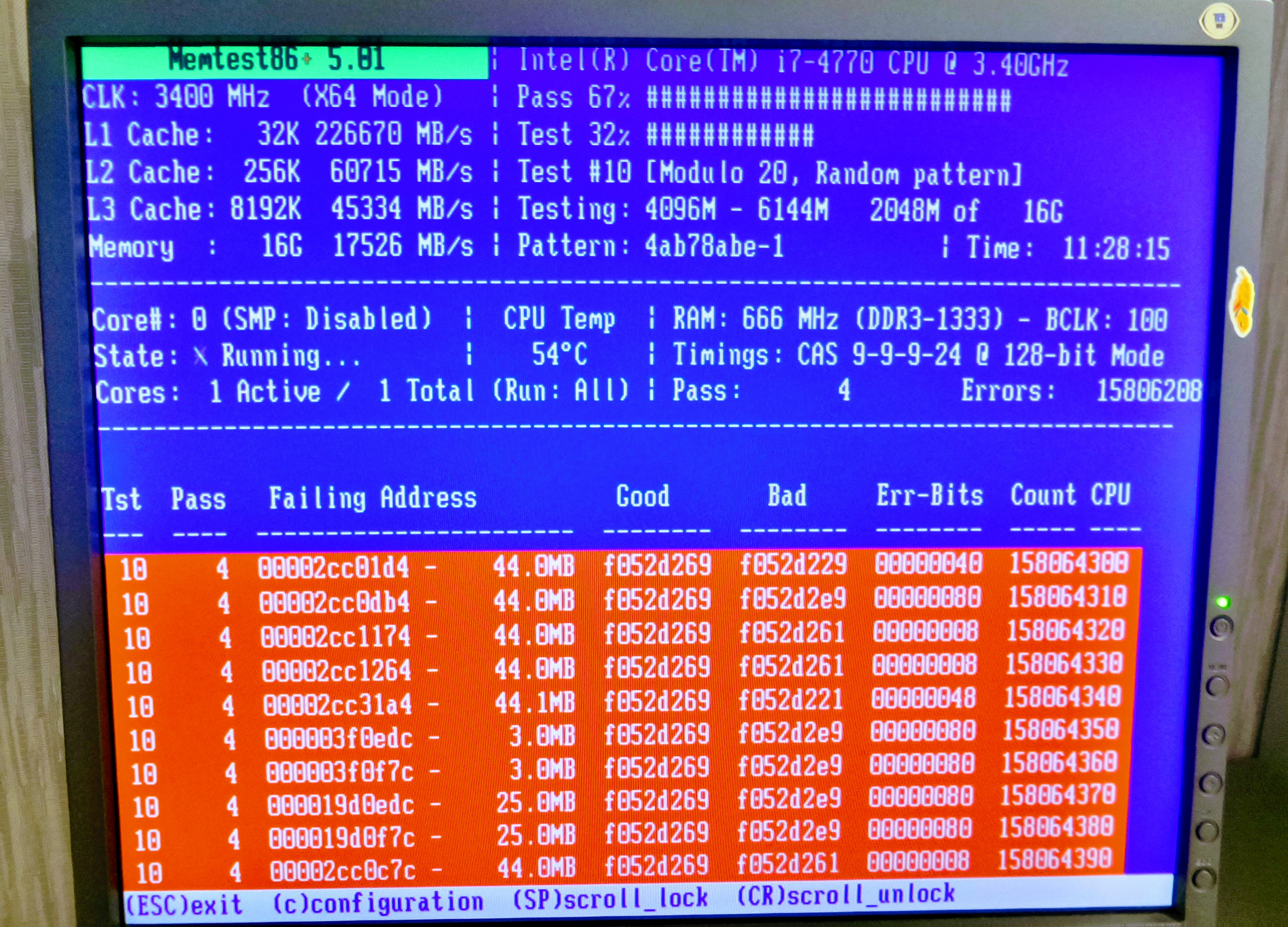 A screenshot of Memtest86+ showing Memtest86+ 5.01 in action. After 11 hours of testing, there are 15806208 errors, 16G of RAM, 4 pass. 2017. It is fun but this computer can work more or less stable with such memory.